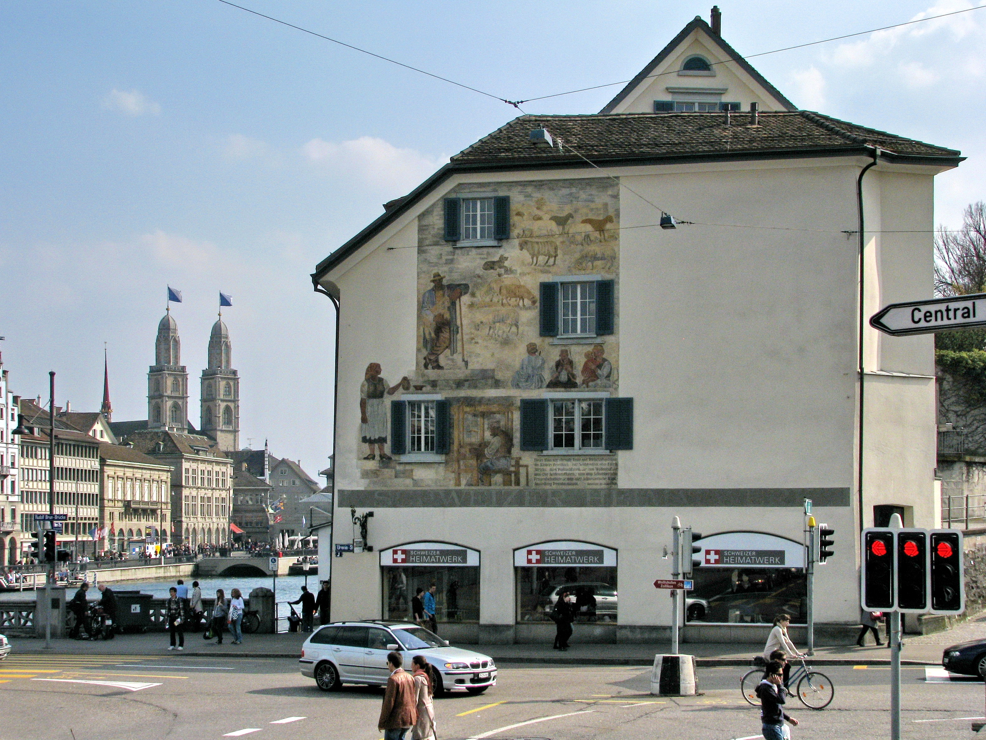 Heimatwerk building as seen from the City Police station (former Waisenhaus (orphanage)